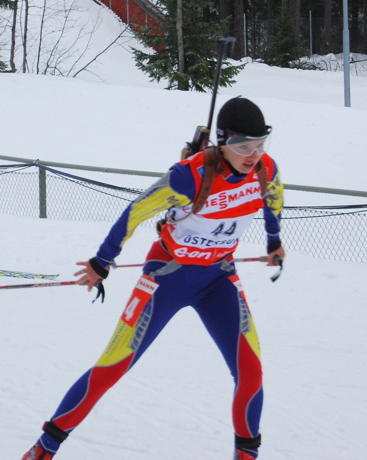 Moldovan biathlete Natalia Levchenkova during the World Championships in Östersund 2008.